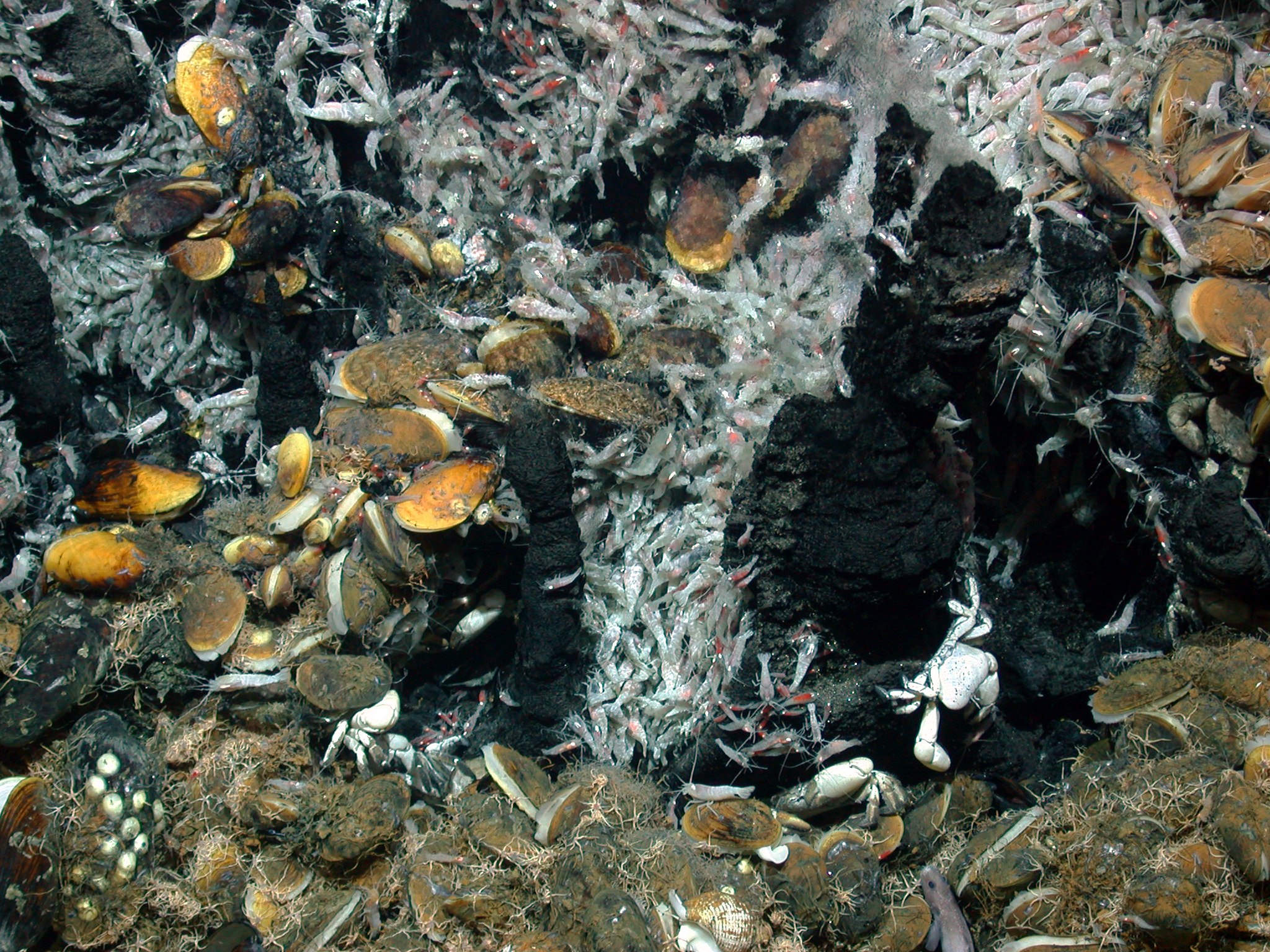 Liv­ing com­munity at hy­dro­thermal seeps on the Mid-Ocean Ridge at a wa­ter depth of 3,030 meters